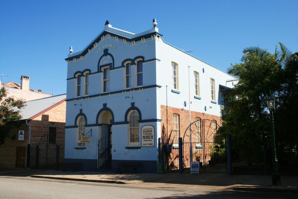 Brown's Building, Gataker's Warehouse Complex (2009)